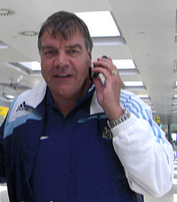 Picture of football manager Sam Allardyce at Airport Graz